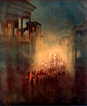 A low-resolution copy of "Pratima Visarjan", a water color painting by Gaganendranath Tagore